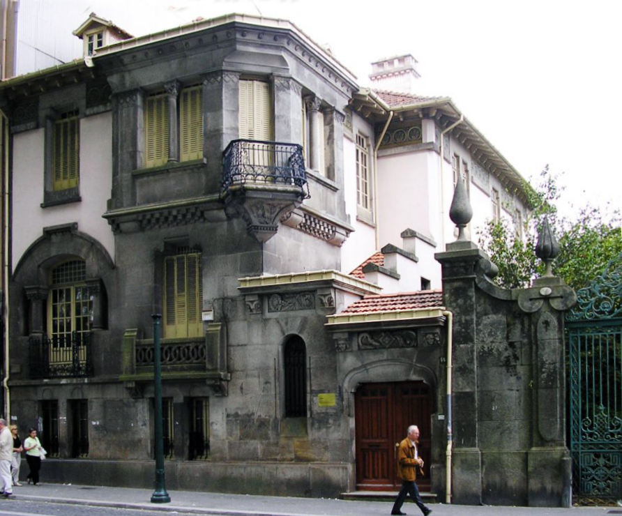 "Marques da Silva" institute in Praça Maquês do Pombal, Porto, Portugal.